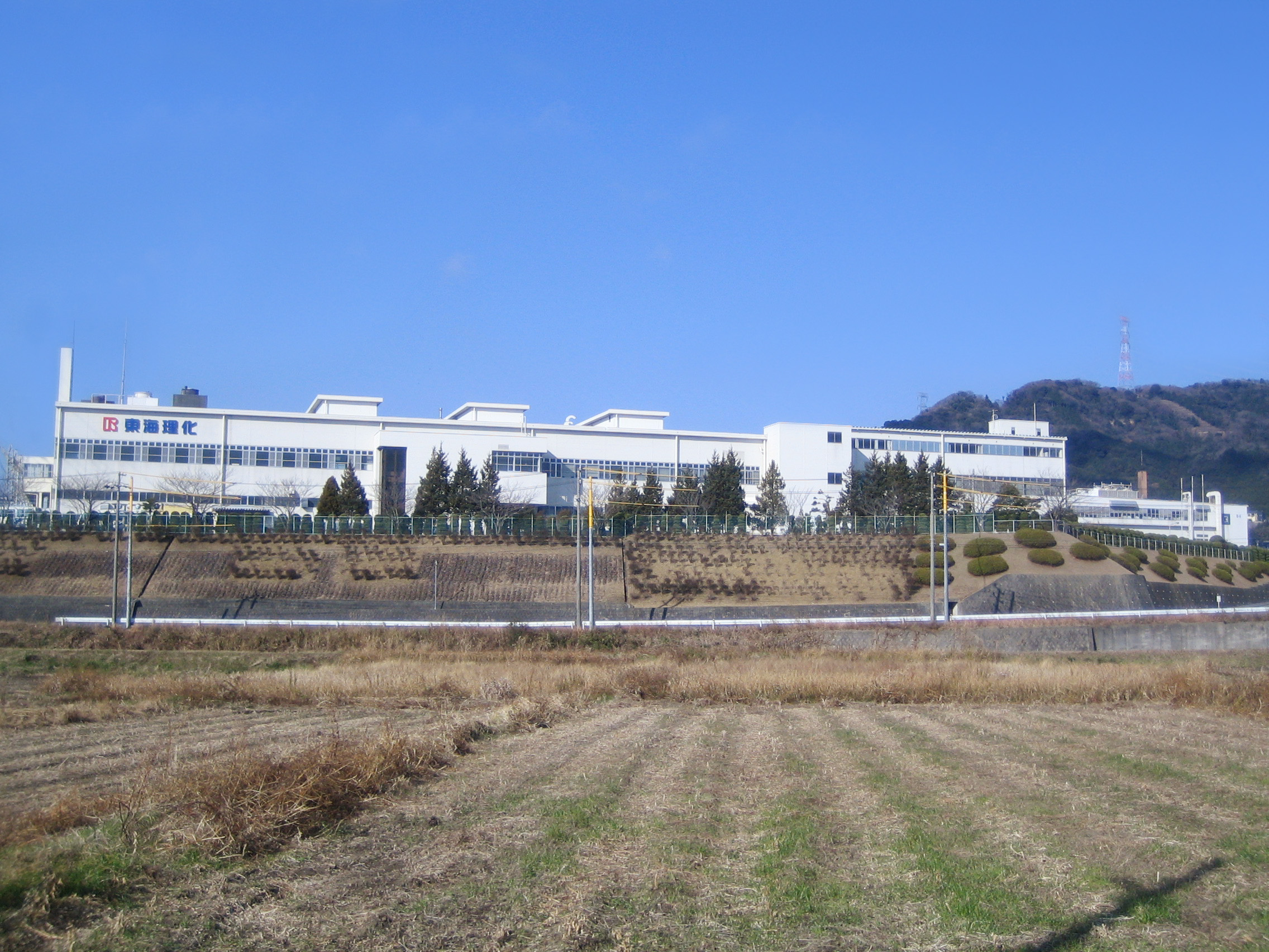 Tokai Rika Otowa Factory (東海理化電機製作所 音羽工場), located at 1 Hirayama, Akasaka-cho, Toyokawa, Aichi, Japan